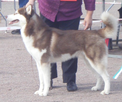 Red-white Siberian Husky male.